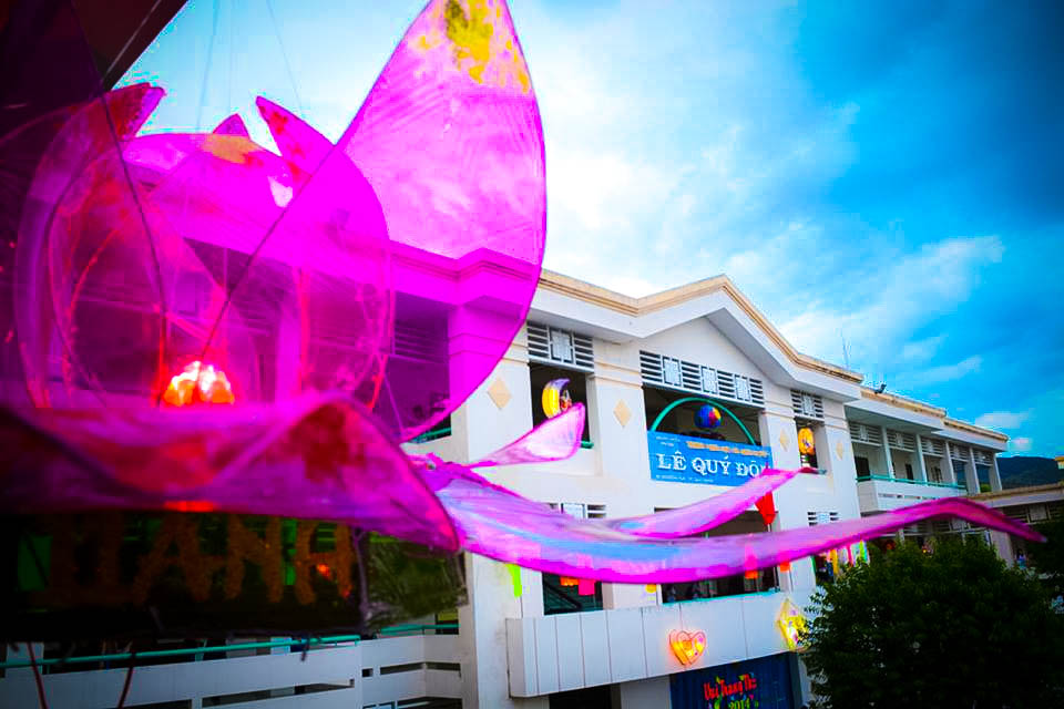 Trung Thu trường Lê - Đất Võ